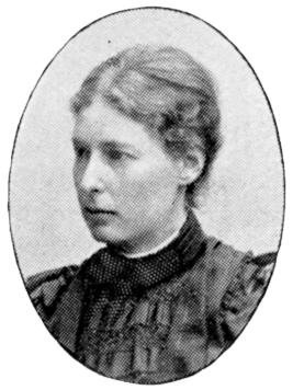 Image scanned from the book "Svenskt Porträttgalleri XX - Arkitekter, Bildhuggare, Målare m.fl. " ("Swedish Portrait Gallery XX - Architects, Sculptors, Painters, ") published 1901